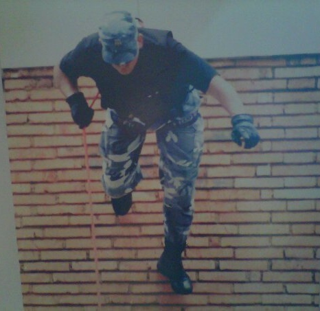 Special Operations Group ( (in spanish: Grupo de Operaciones Especiales) GOE of Misiones Argentina).